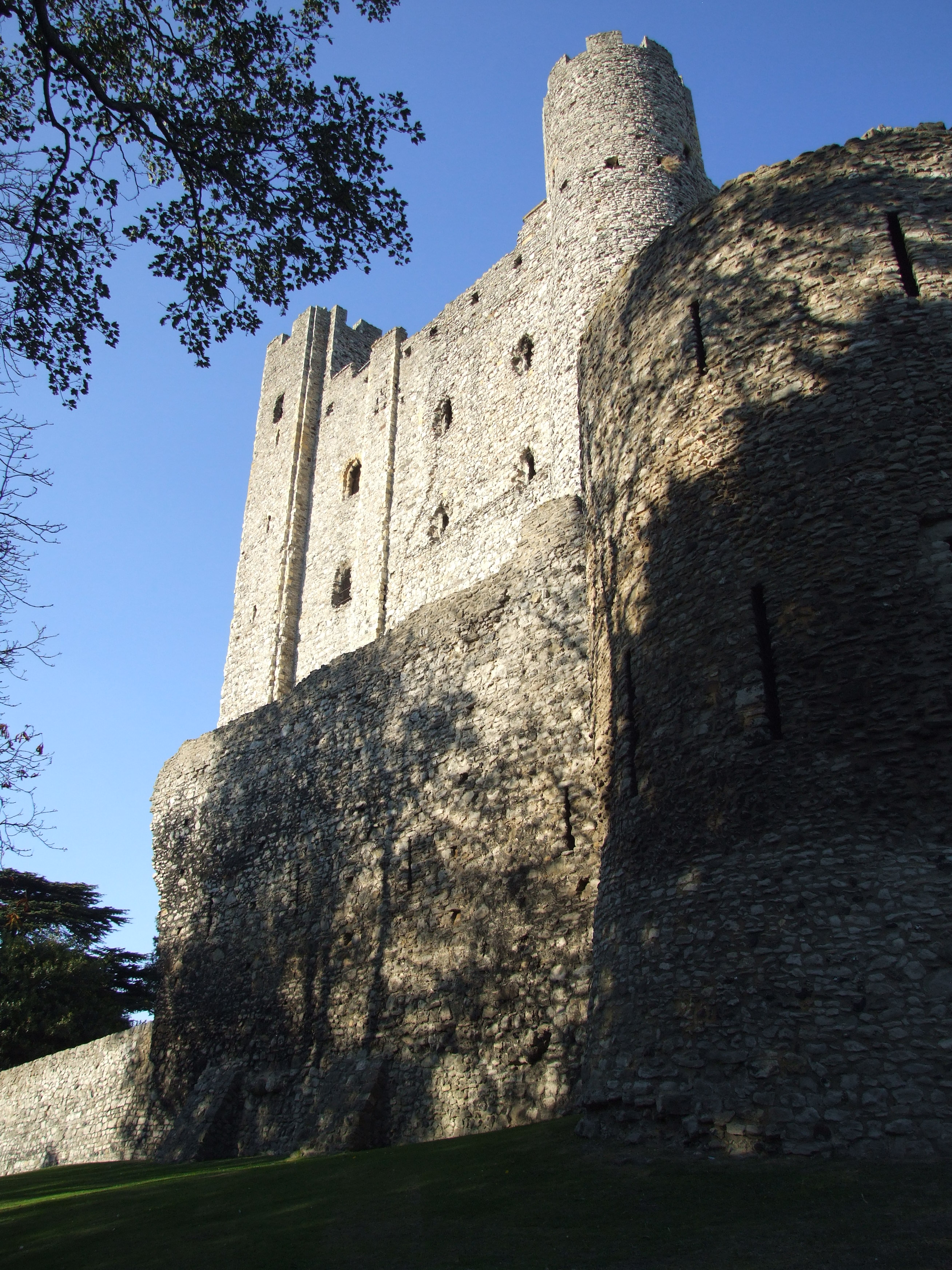 Rochester Castle Clear view of the round rebuilt corner behind curtain wall drum tower.